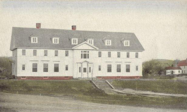 Carey House, Proctor Academy, Andover, NH; from a c. 1915 postcard.